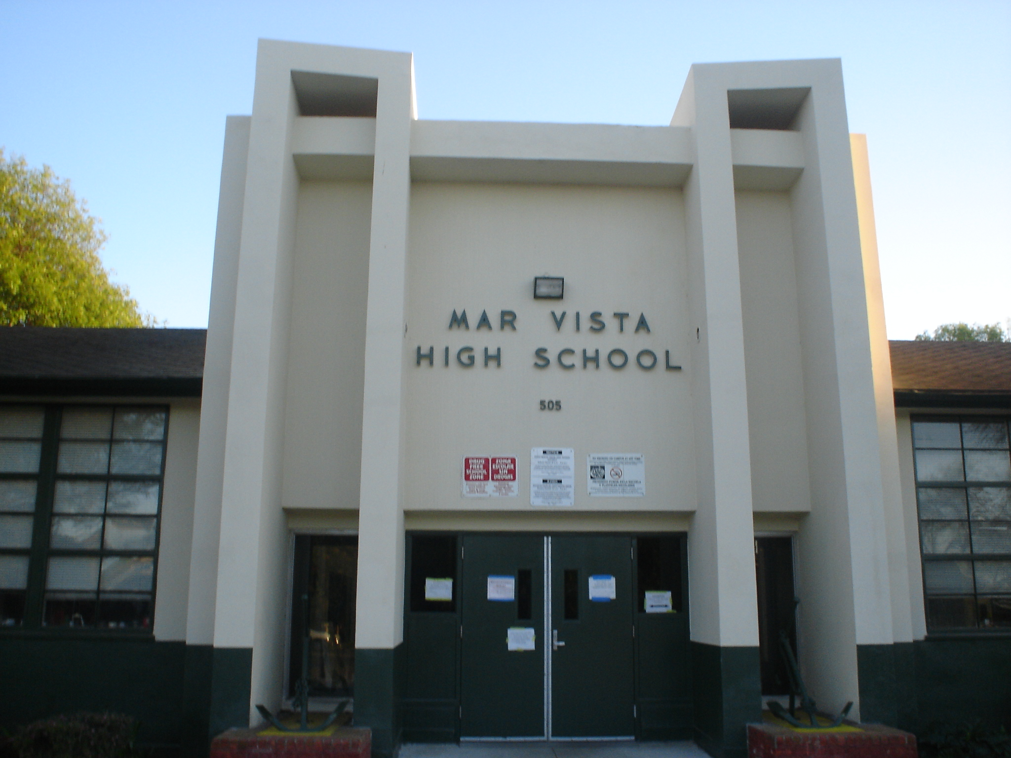 Picture of Mar Vista High School in Imperial Beach, California. Part of the Sweetwater Union High School District.